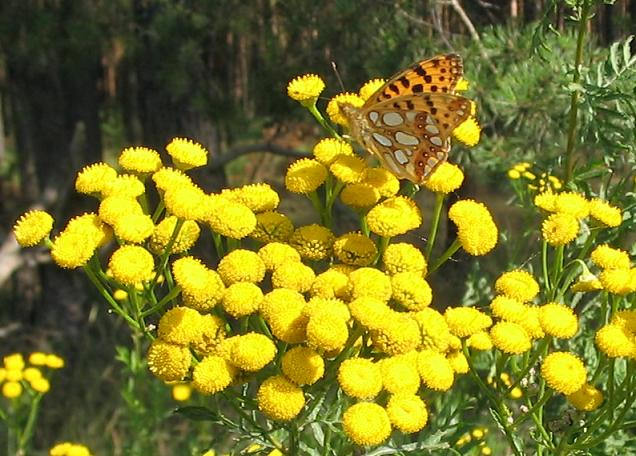 Tansy ((Tanacetum vulgare) and Queen of Spain Fritillary (Issoria lathonia), Schönhagen, Naturpark Nuthe-Nieplitz, Brandenburg, August 2004